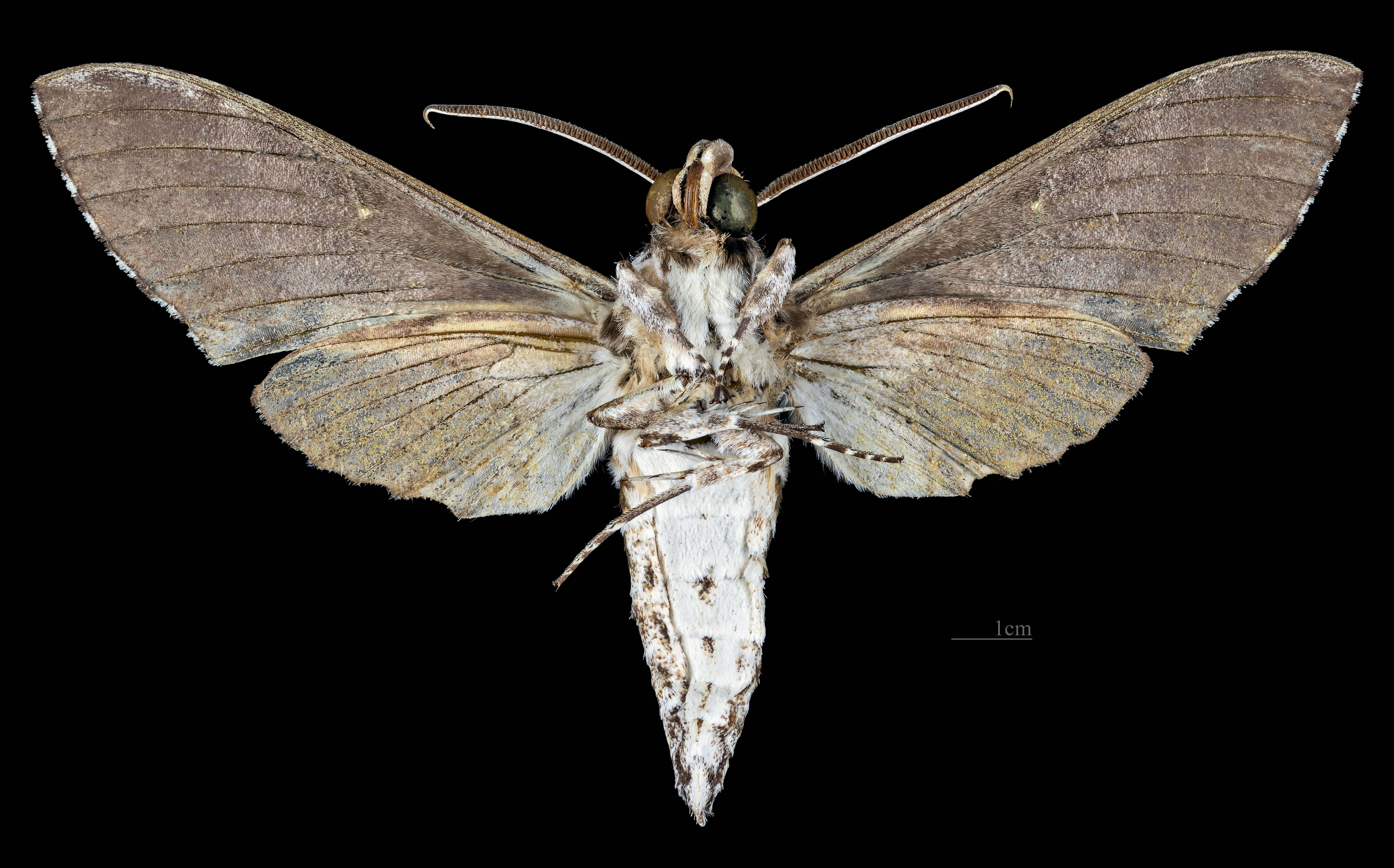 Manduca brontes - △ Ventral side △ Collection of the Mathematician Laurent Schwartz